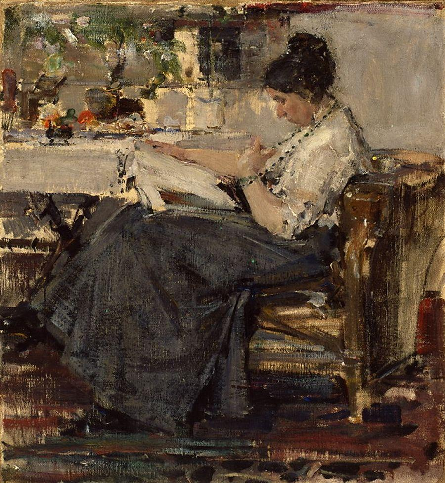 Nikolai Ivanovich Fechin, Portrait of N. V. Sapozhnikova (1915), State Art Museum of Tatarstan, Kazan